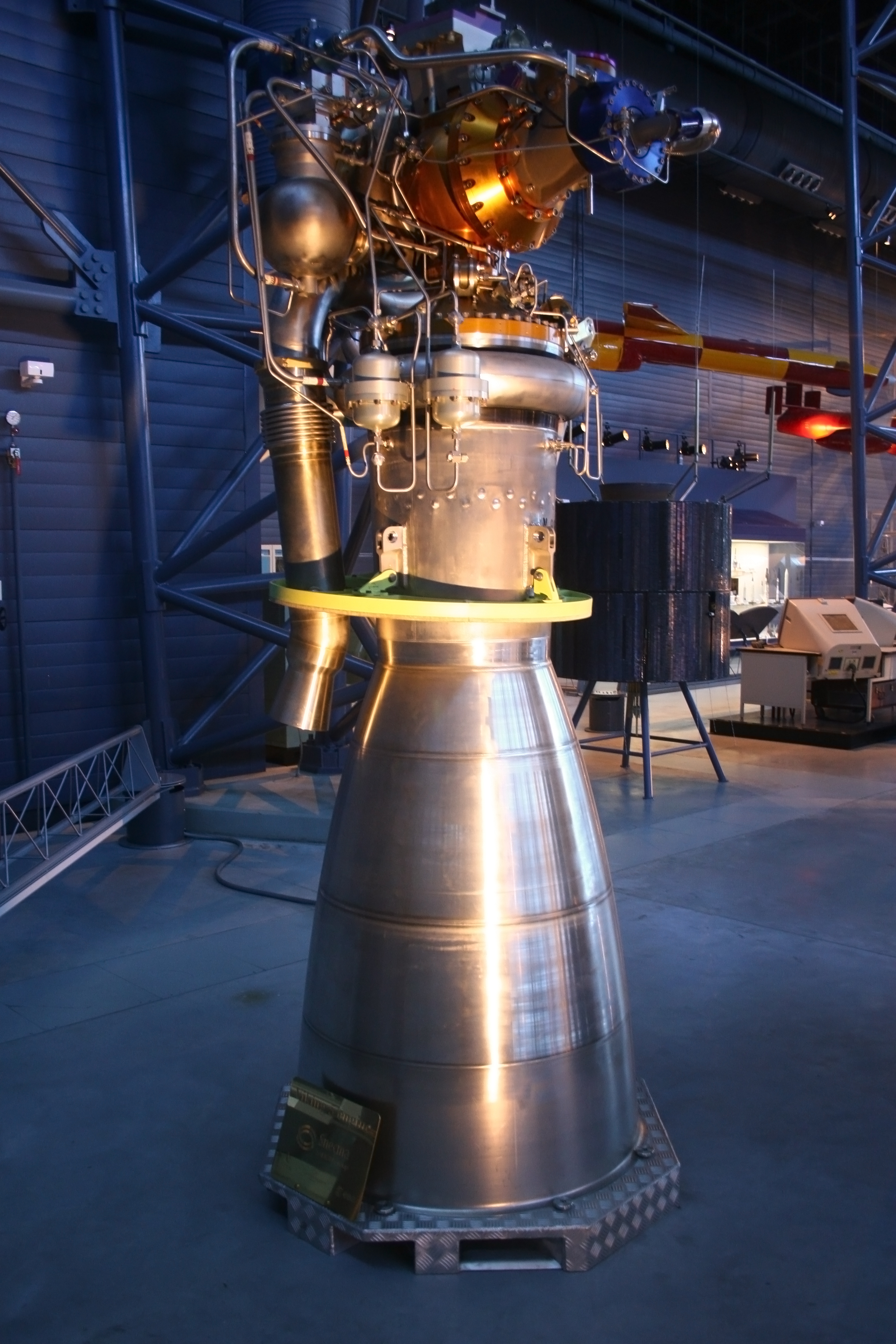 The Viking 5C Rocket Engine. The engine was designed and manufactured by six countries: France, Germany, Spain, Belgium, Sweden and Italy. It was used in first stage of Ariane 4 from 1990 to 2003. Picture taken at the National Air and Space Museum's Steven F. Udvar-Hazy Center, Chantilly, Virginia, USA. Length: 2.87 m (9 ft 5 in). Weight: 399 Kg (880 lb). Thrust: 760700 N (171500 lb) Propellants: Nitrogen tetroxide & unsymmetrical dimethyl hydrazine (UDMH). Manufacturer: SNECMA for the European Space Agency.